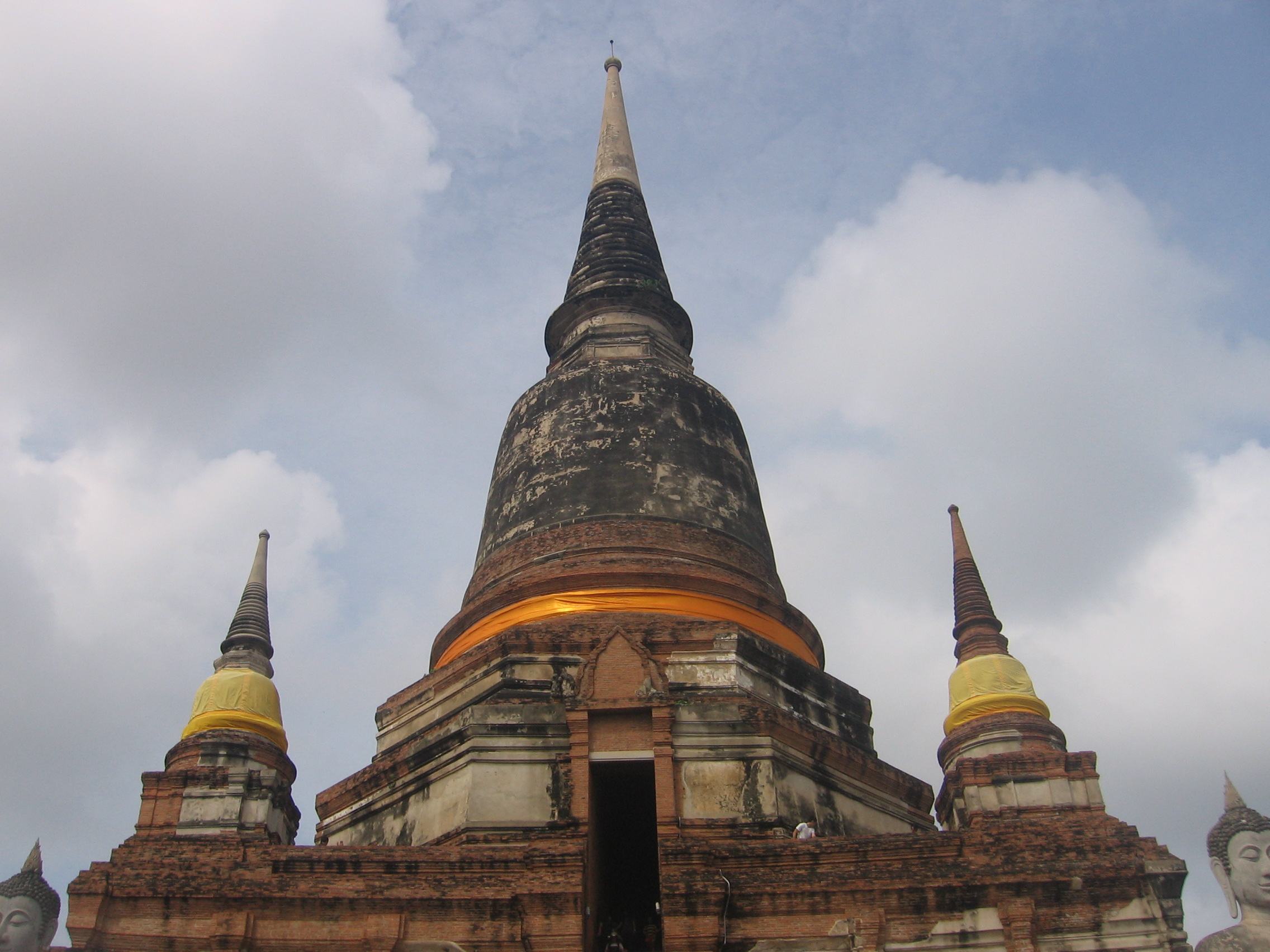 Wat Yai Chai Mongkhon in Ayutthaya, Thailand.